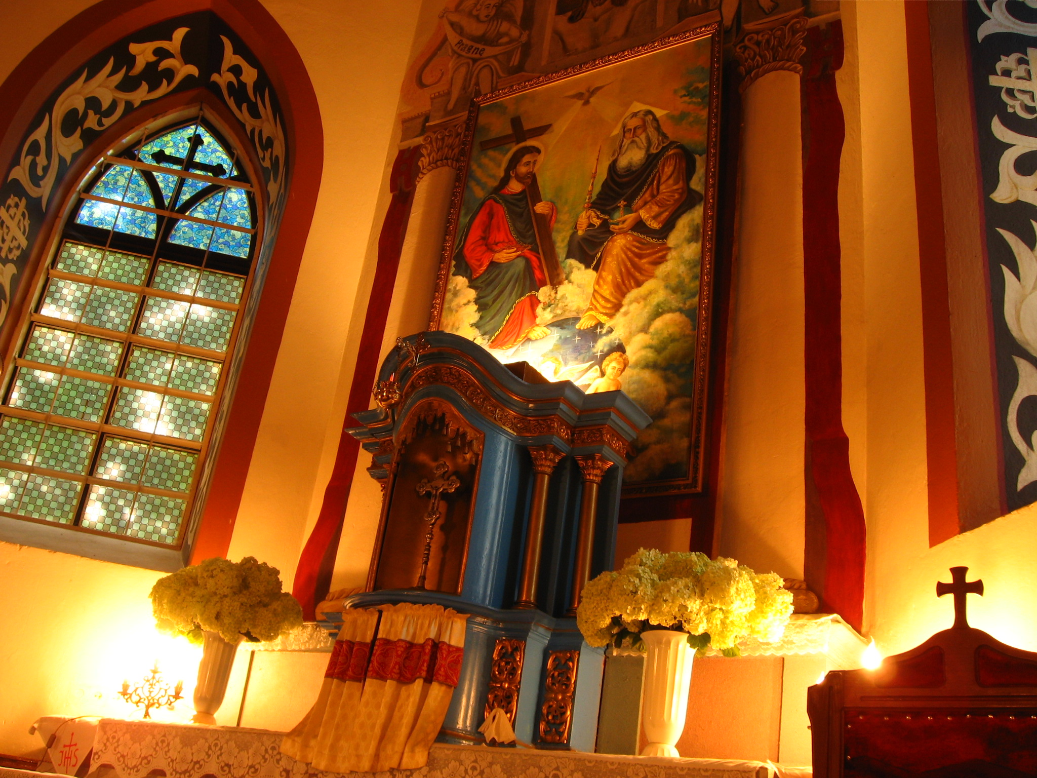 Hermanishki, Belarus - catholic church